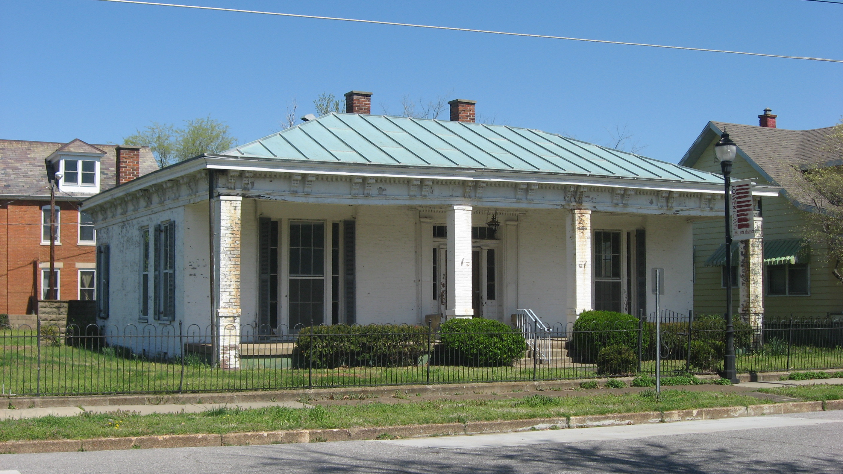 Western side and front of the Mayor David A. Yeiser House, located at 533 Madison Street in Paducah, Kentucky, United States. Built in 1852, it is listed on the National Register of Historic Places, and it is part of a Register-listed historic district, the Lower Town Neighborhood District.